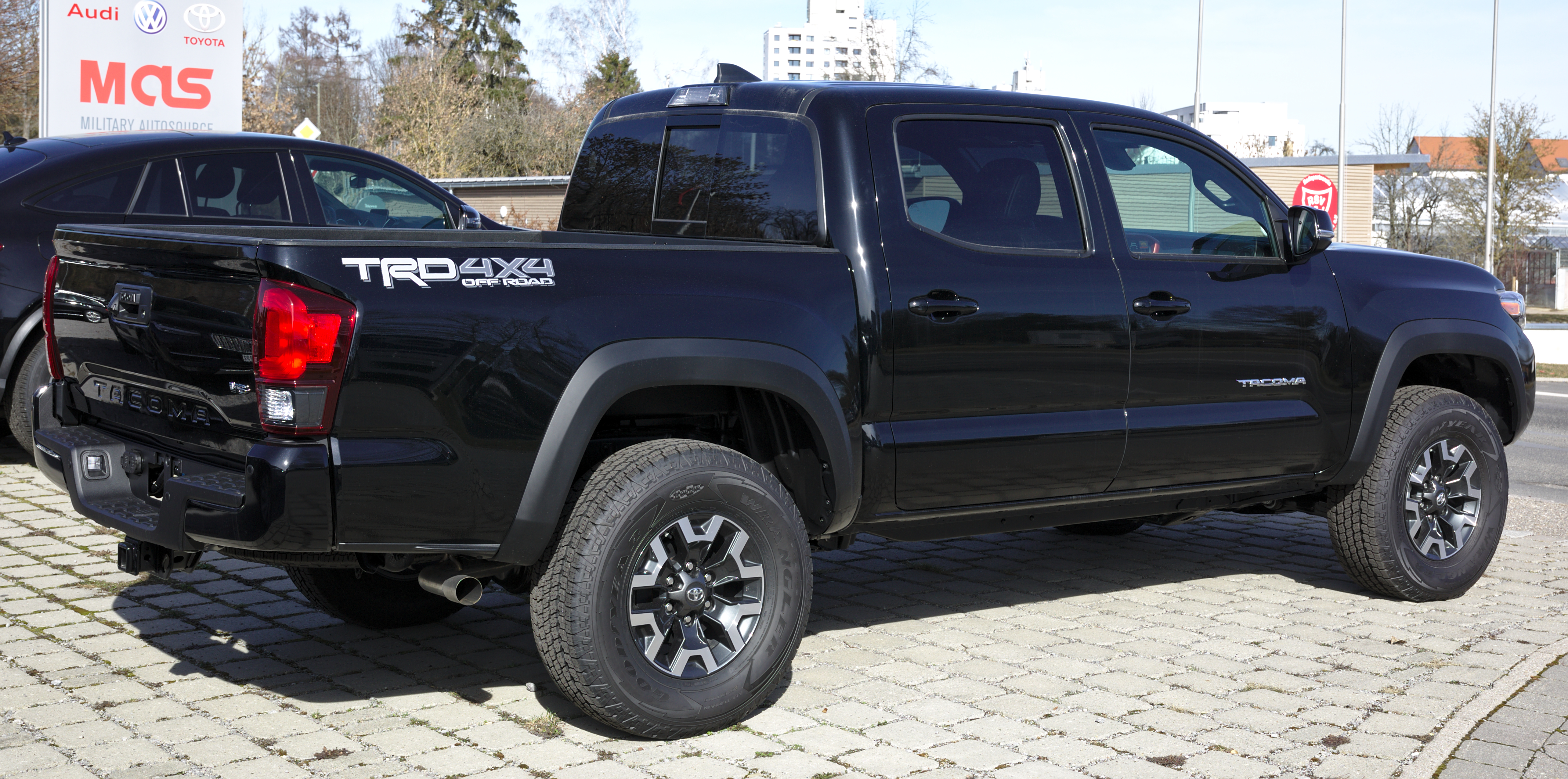 Toyota Tacoma in Stuttgart-Vaihingen